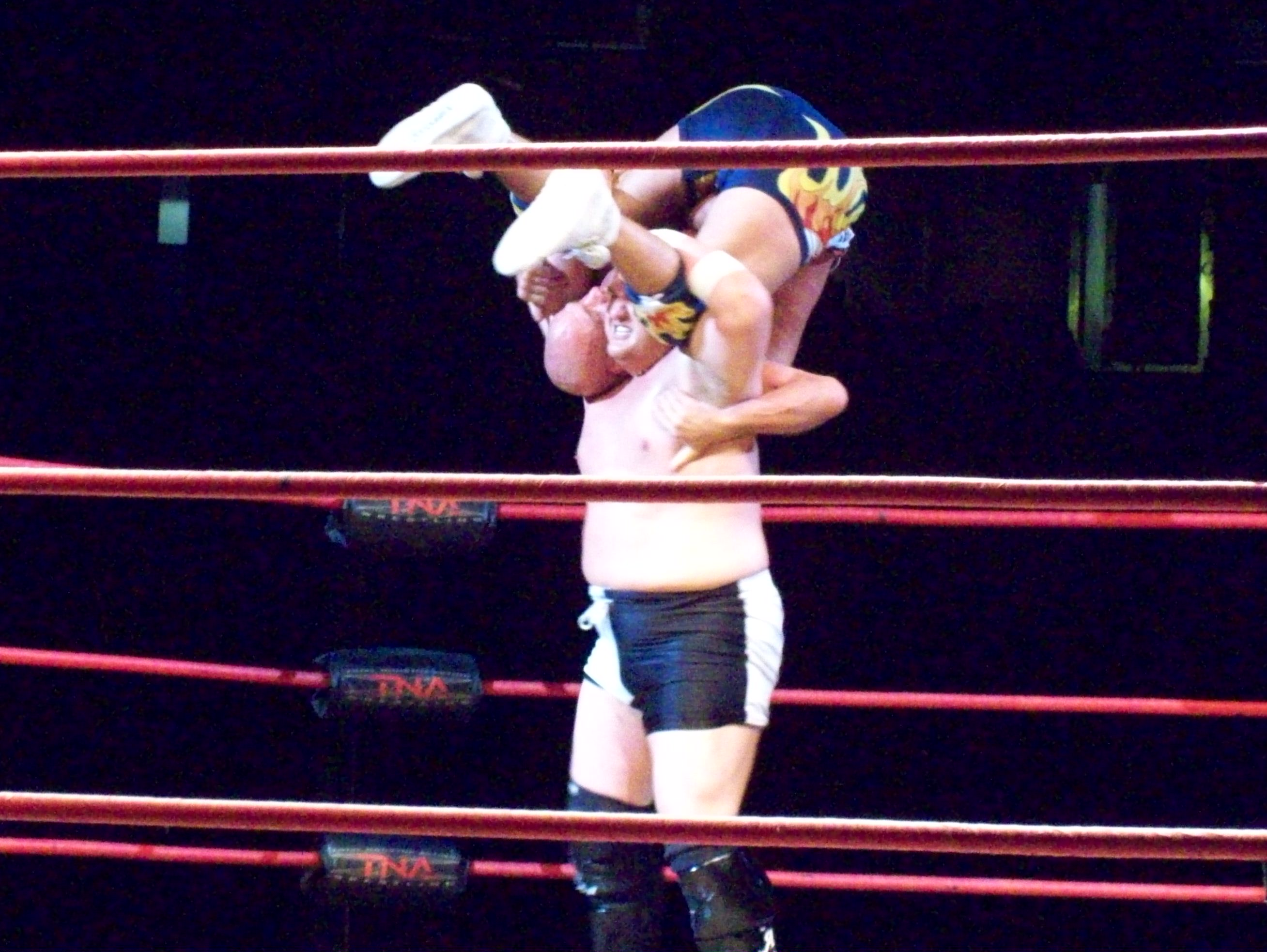 muscle buster